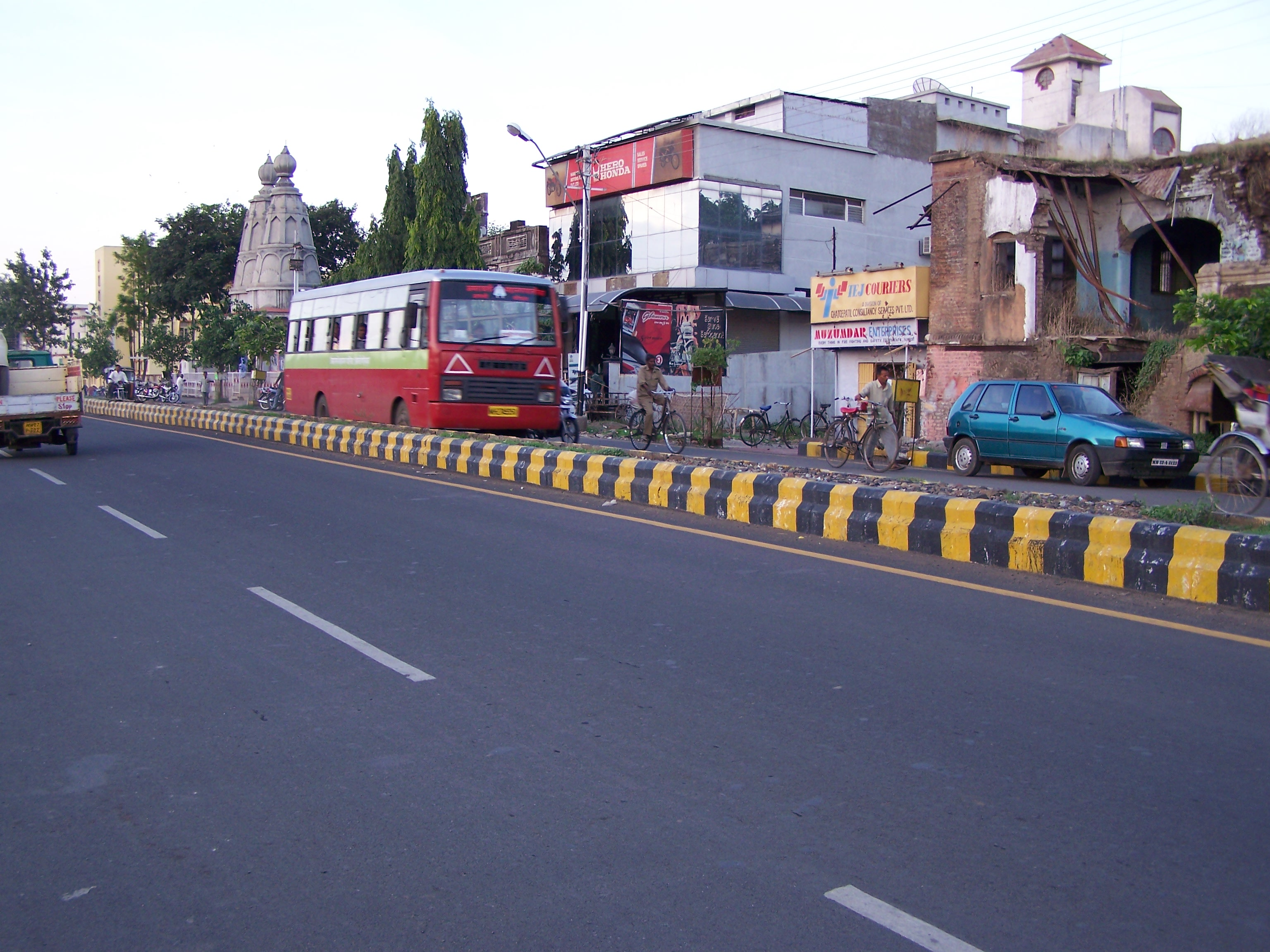 Amravati city bus